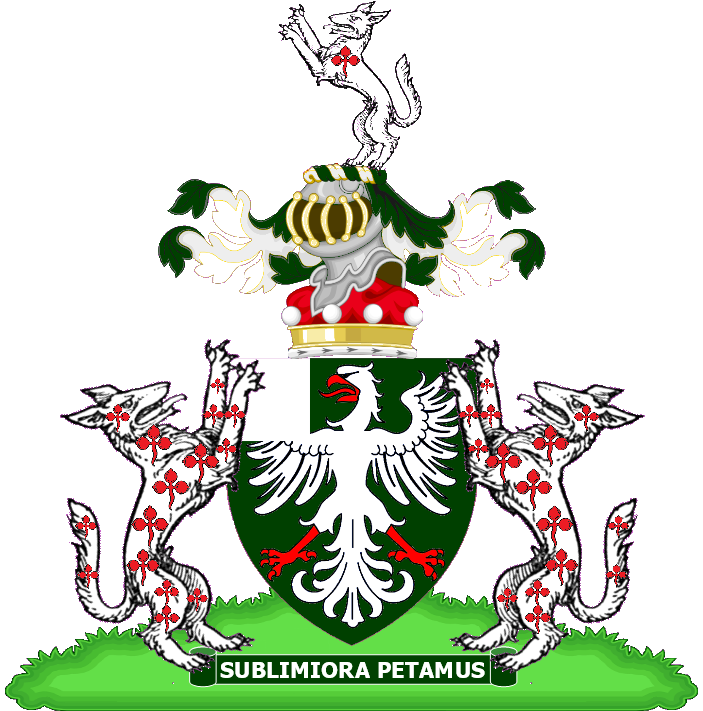 The armorial achievement of The Lord Biddulph